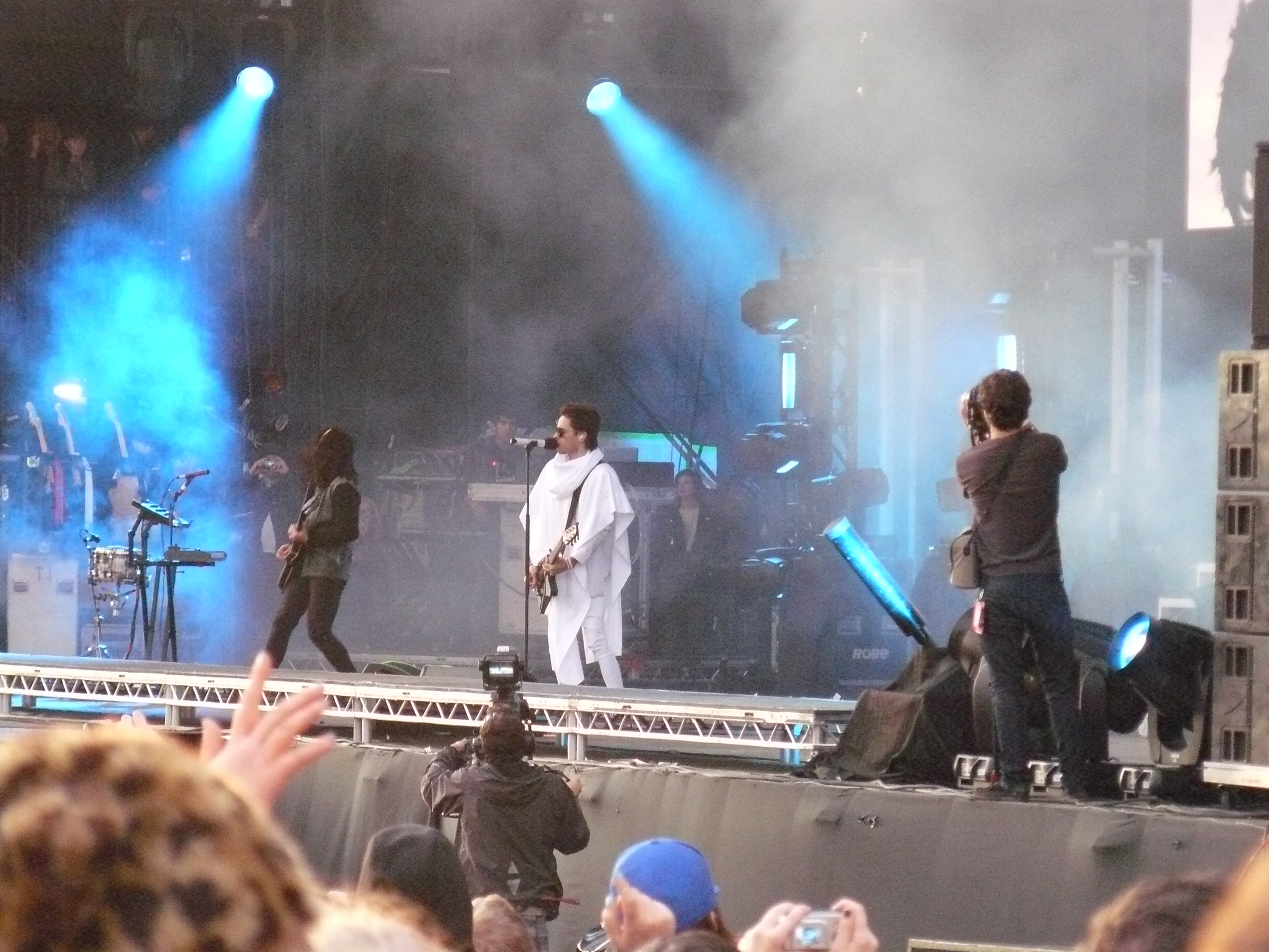 Thirty Seconds To Mars performing at Leeds Festival 2011.